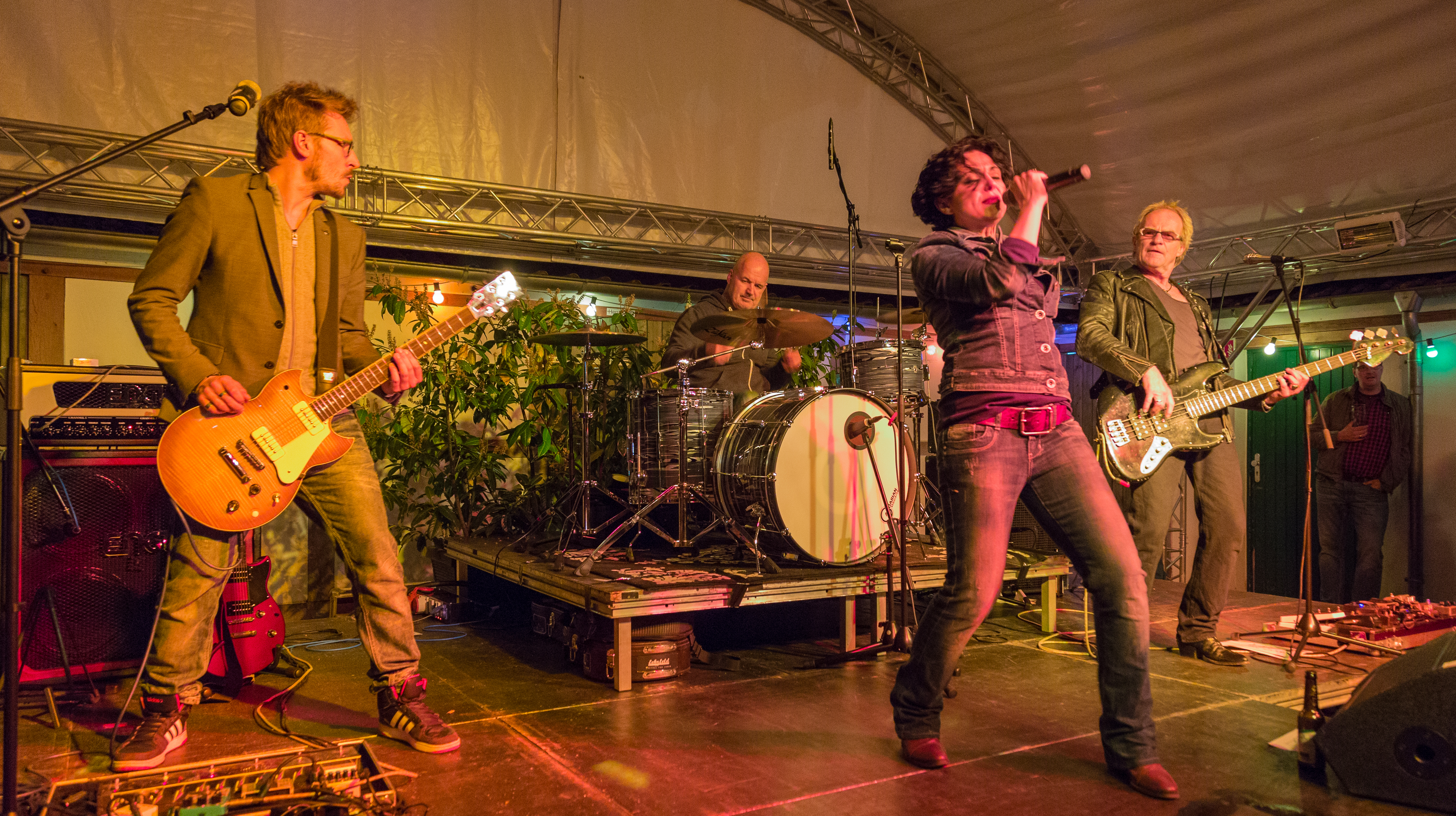 From left to right: Dennis Hormes (guitar, vocals), Berni Bovens (drums), Sylvia González Bolívar (vocals) and Martin Engelien (bass) performing at the Laggenbeck Lido (Freibad Laggenbeck) in Ibbenbüren-Laggenbeck, Kreis Steinfurt, North Rhine-Westphalia, Germany, during the „Go Music 20th Anniversary Jubilee Tour“.